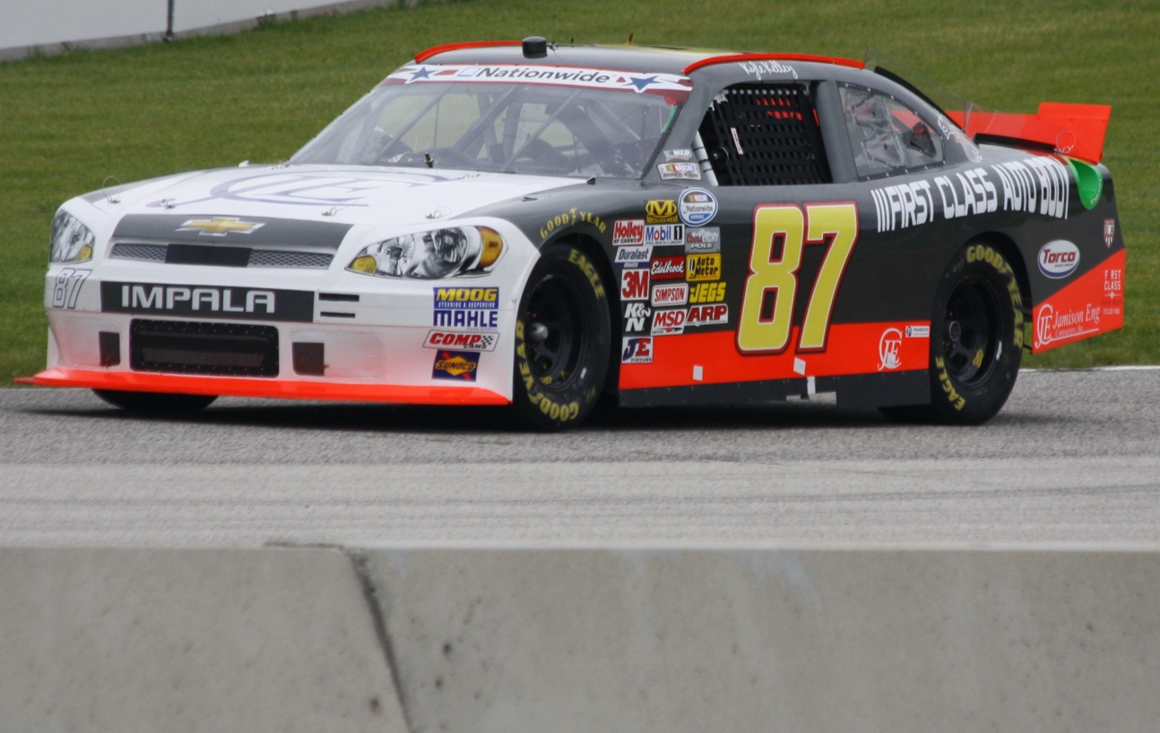 The NASCAR Nationwide car of Kyle Kelley during the w:2013 Johnsonville Sausage 200 at Road America.